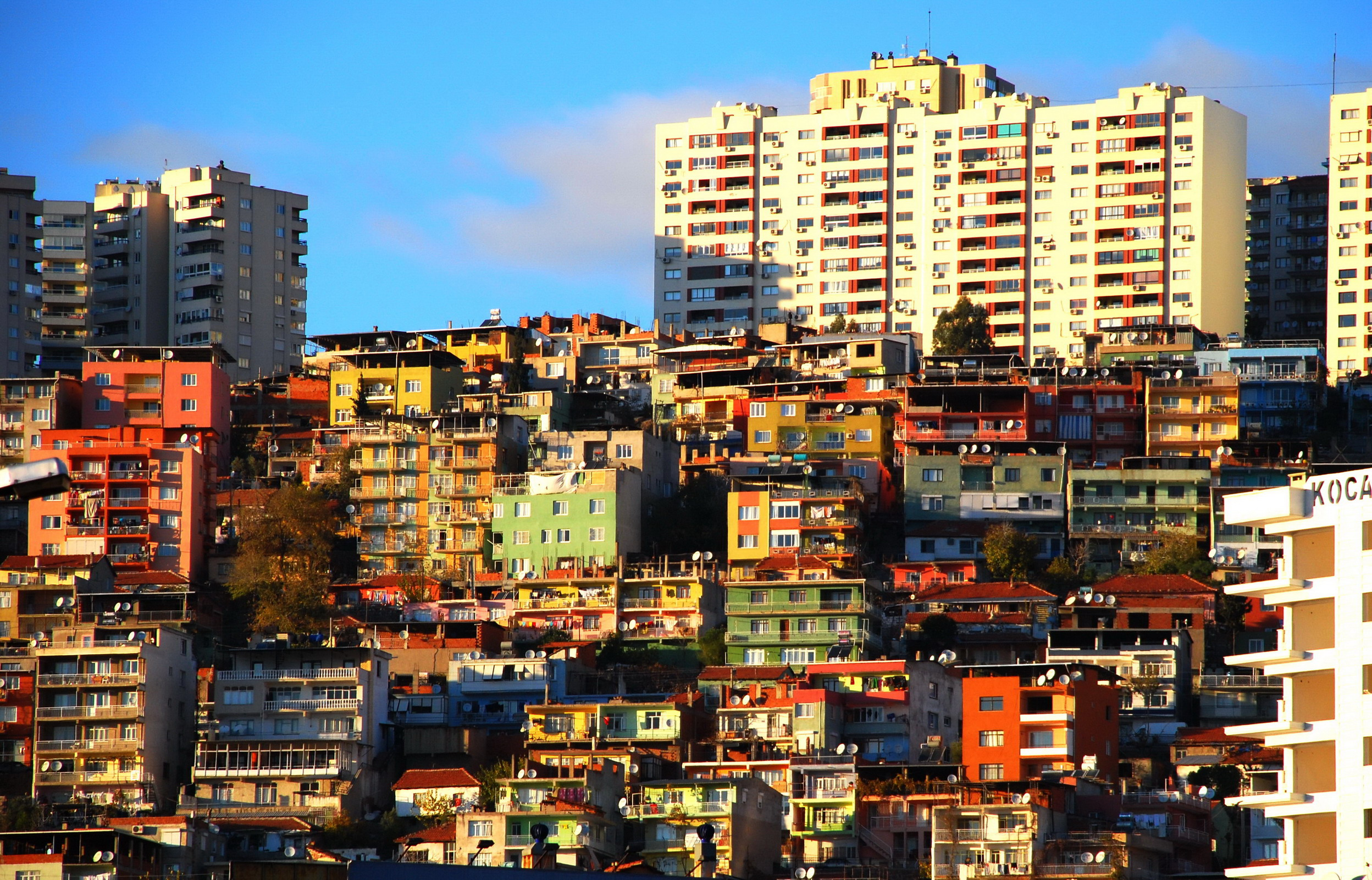 Gecekondu neighbourhood in Bayraklı, Izmir